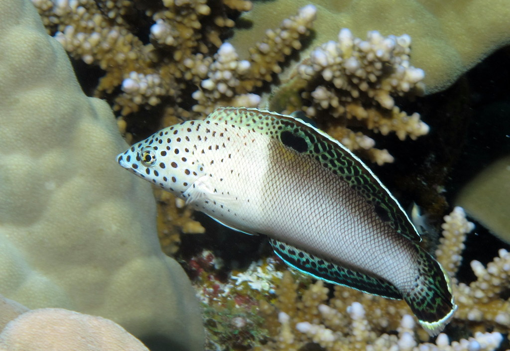 Initial phase of clown coris at Shelenyat Reef, Red Sea, Egypt #SCUBA #UNDERWATER #PICTURES